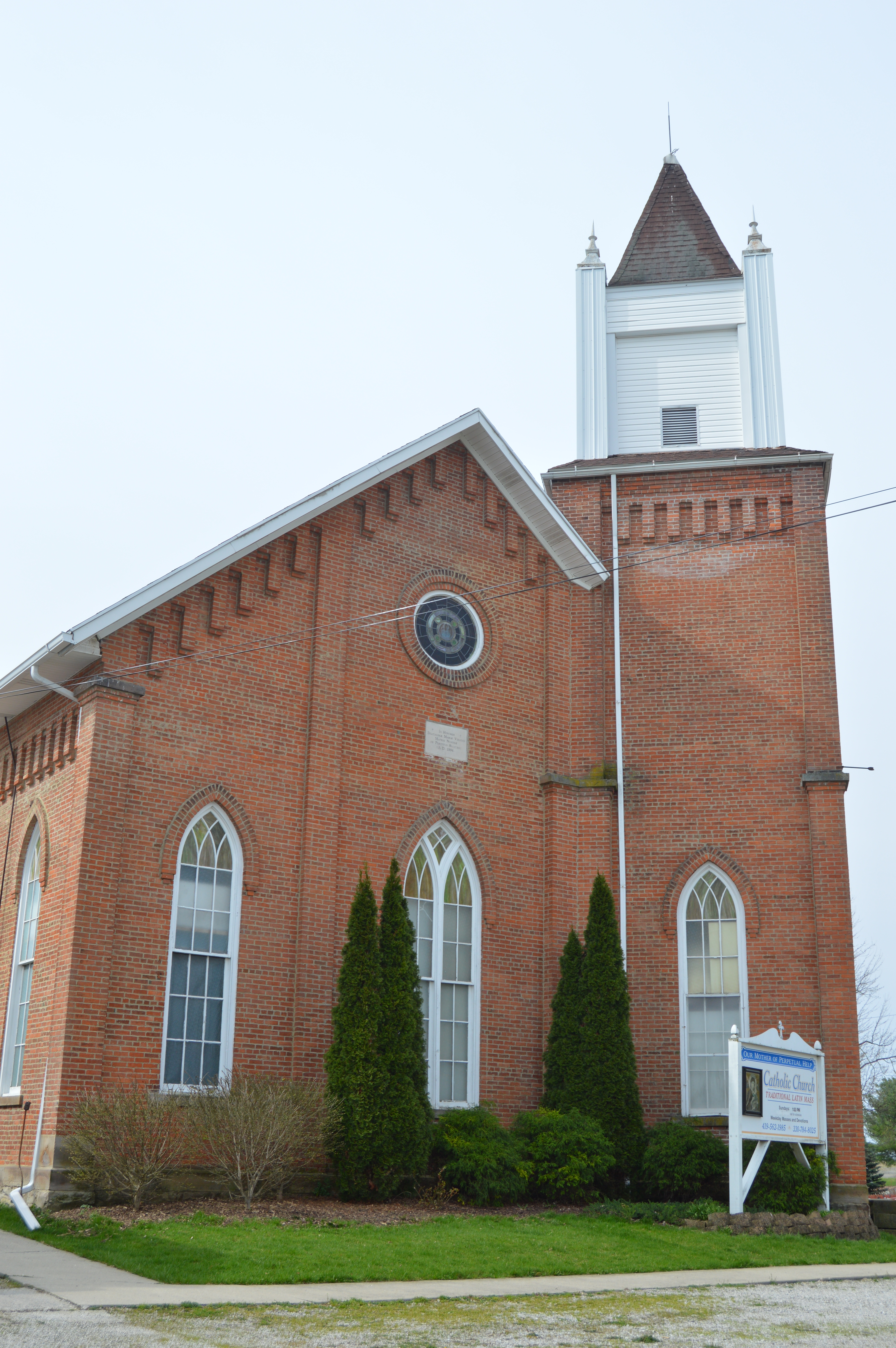 Front of Our Mother of Perpetual Help Church (a parish of a sedevacantist Catholic group, the Congregation of Mary Immaculate Queen), located at 4953 South Street in Sulphur Springs, Ohio, United States.